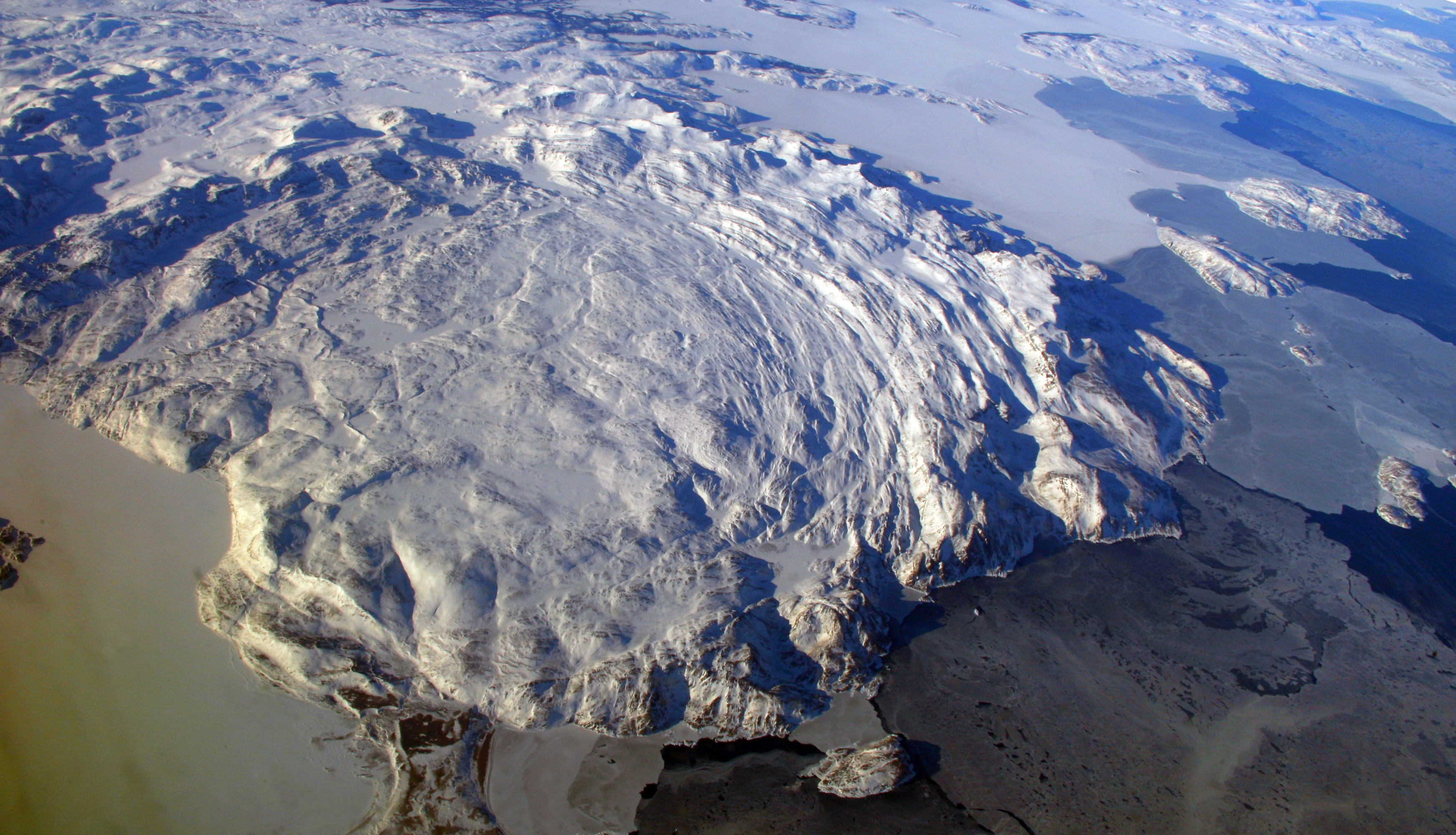 The Kiglapait Mountains of norther coastal Labrador.